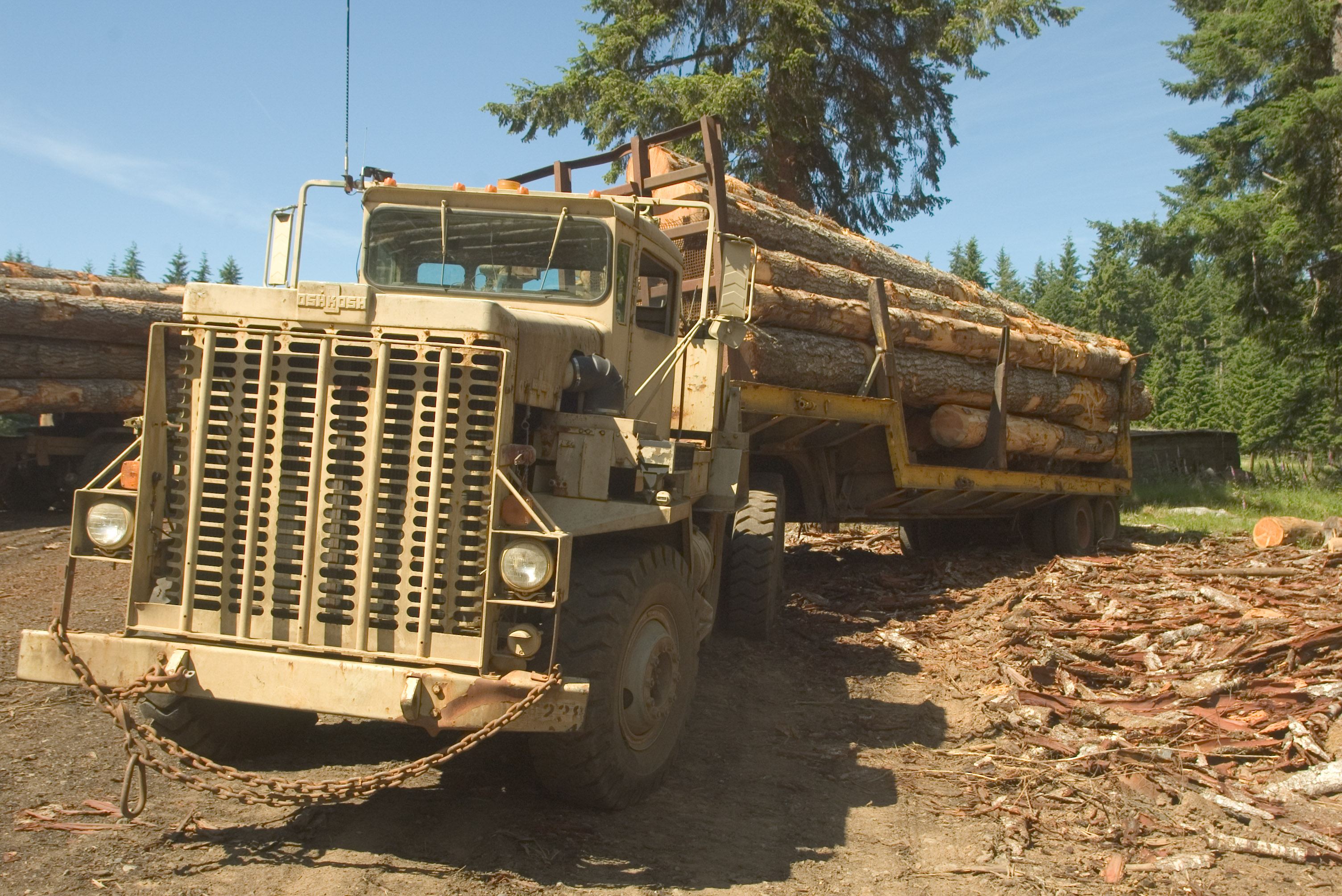 United States military surplus M911 used for civilian off road hauling near Apiary